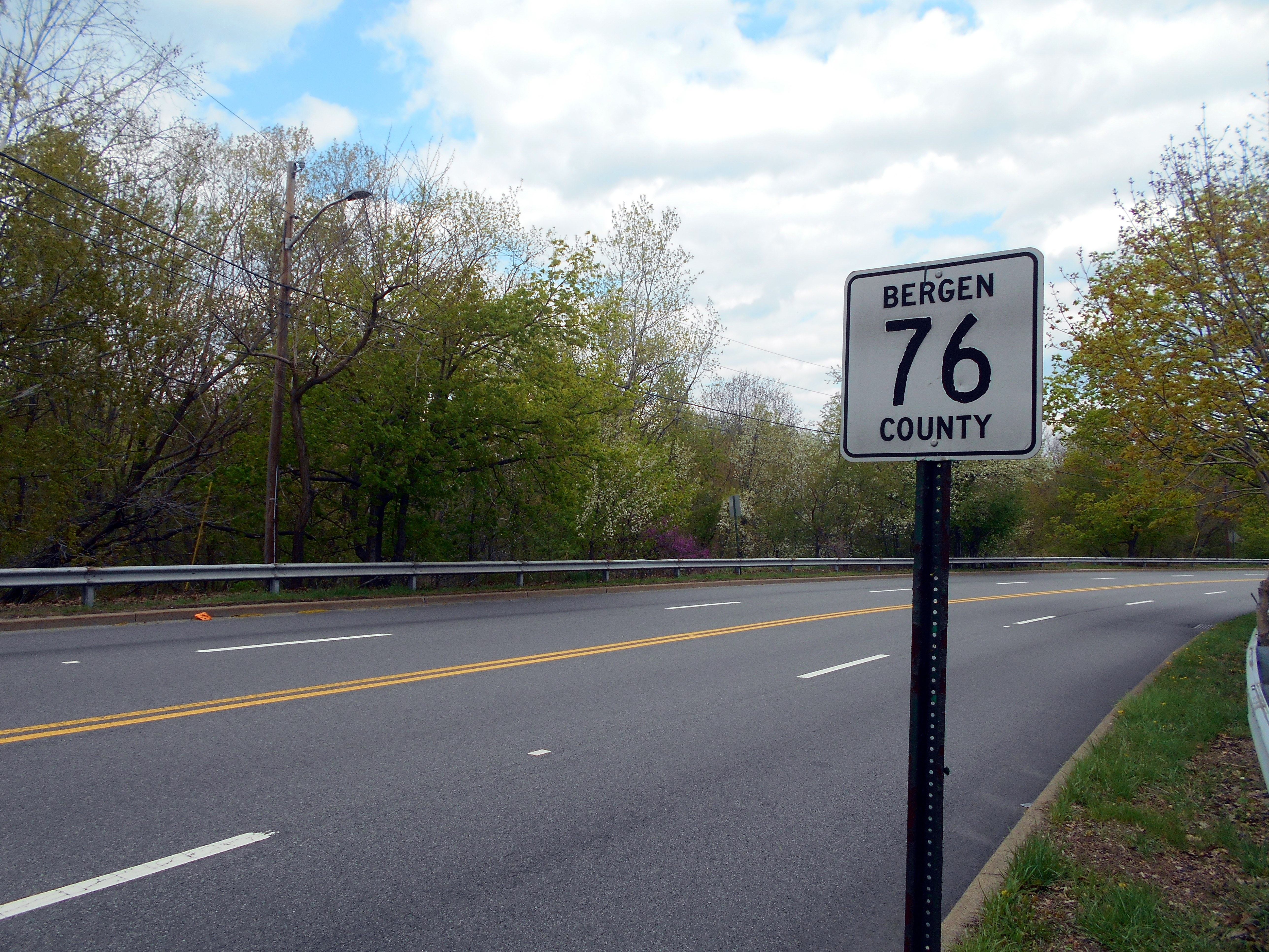 Signage for Bergen County Route 76 in Fair Lawn, New Jersey.